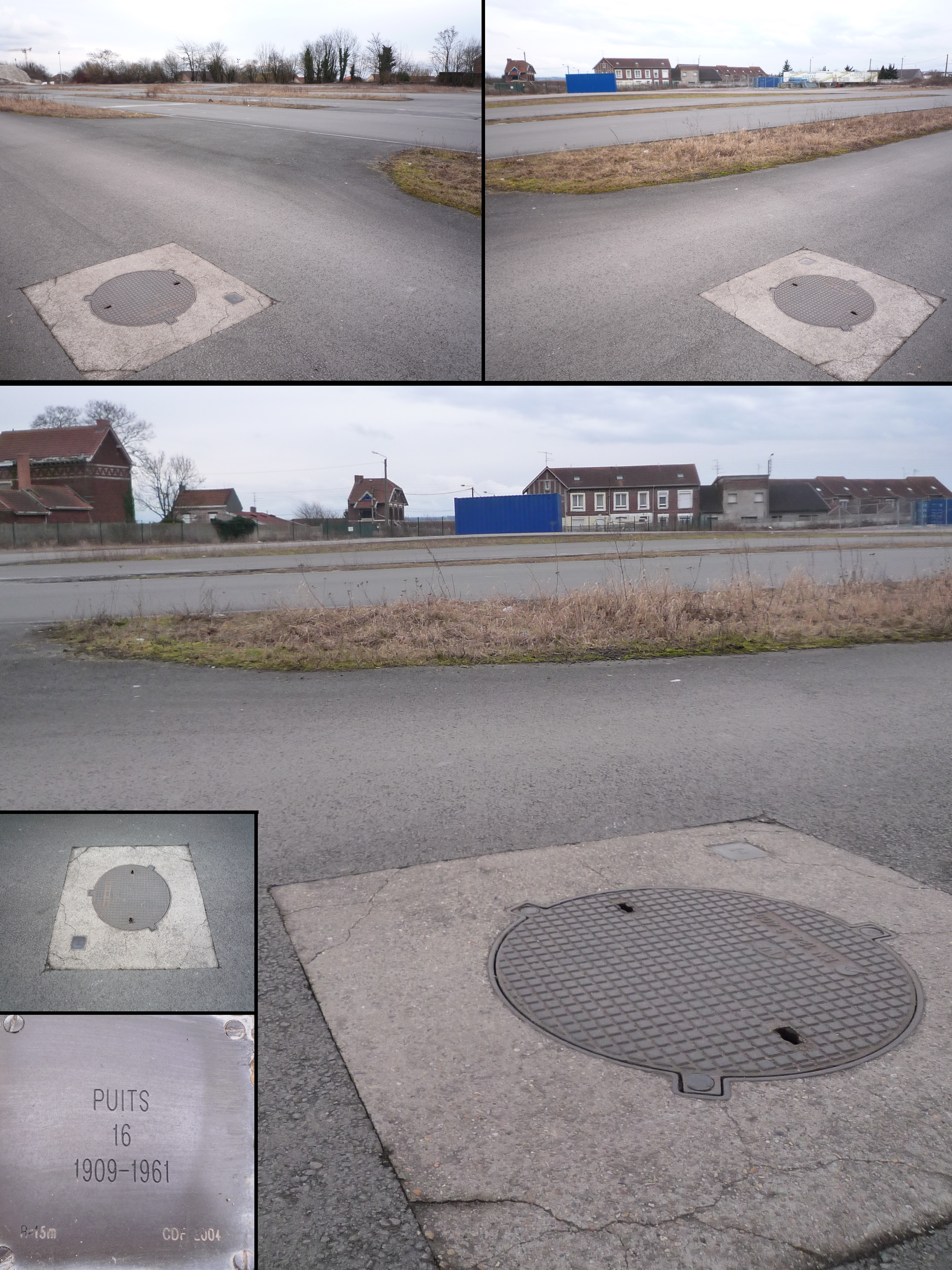 Pit n° 16, Compagnie des mines de Lens, Loos-en-Gohelle, Pas-de-Calais, Nord-Pas-de-Calais, France.